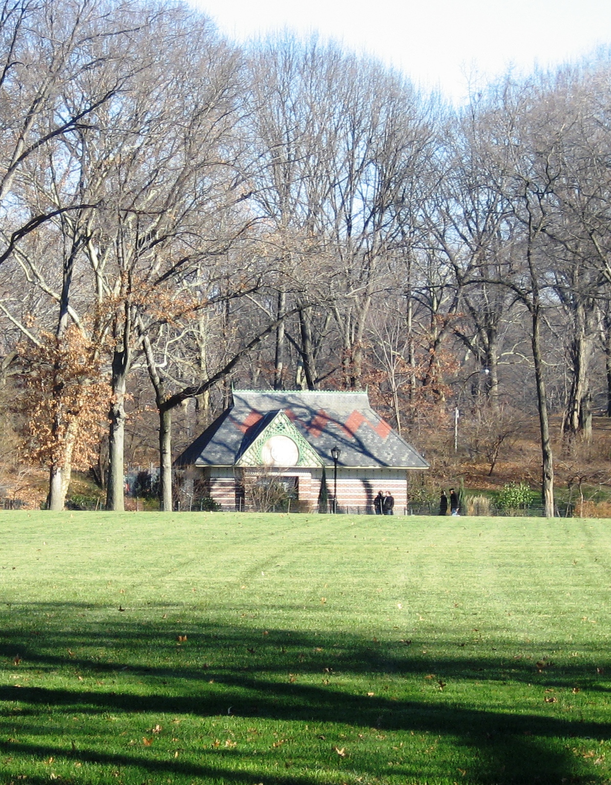 The Ballplayers House, Central Park, New York, Buttrick White & Burtis, Architects, taken in 2010.